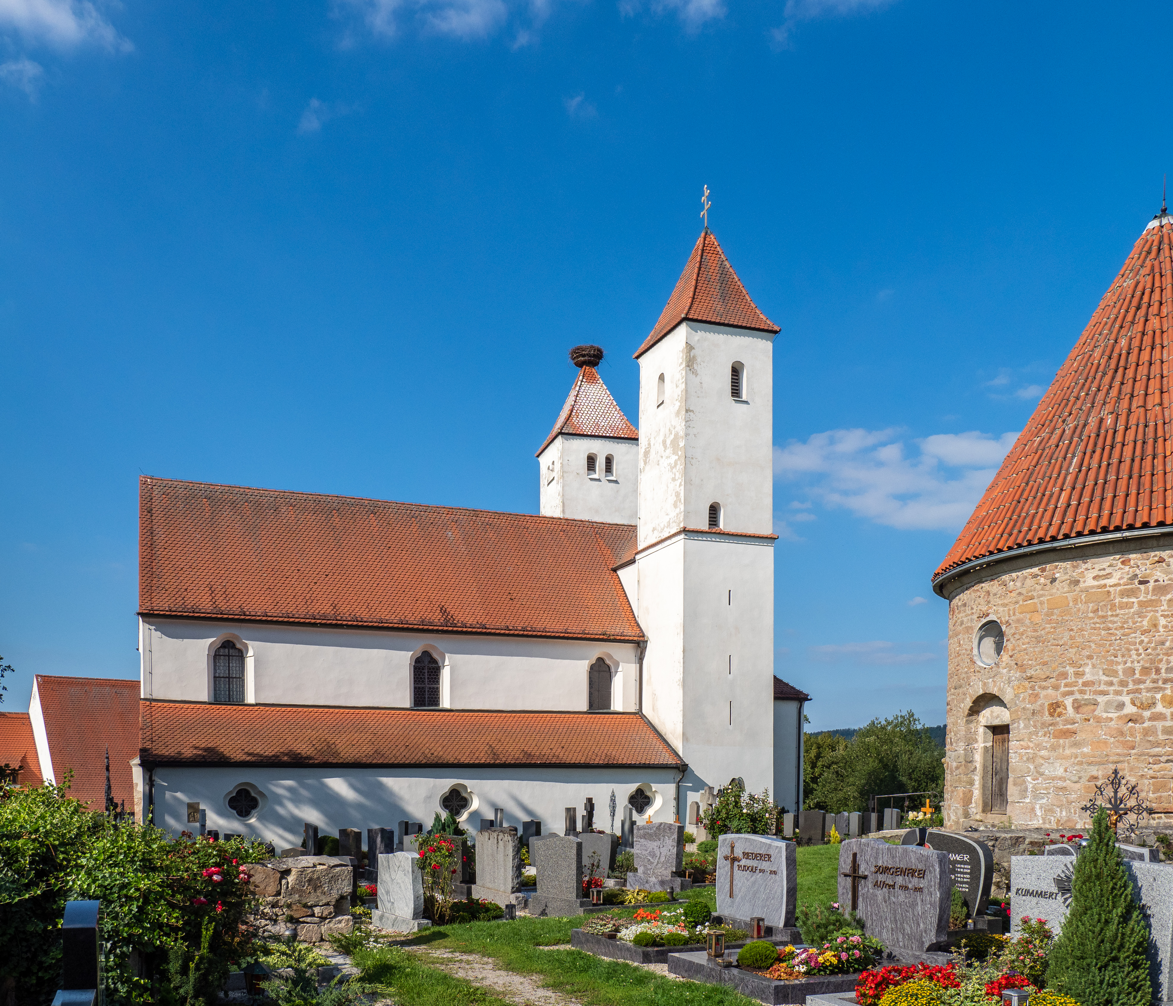 Parish church St. Peter and Paul in Perschen near Nabburg